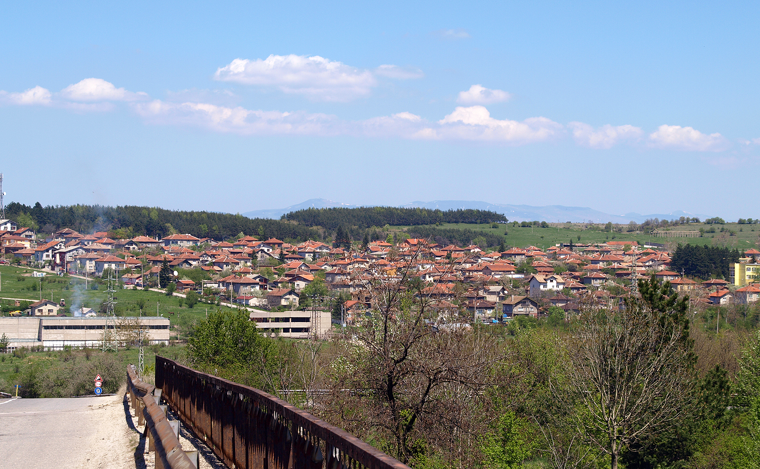 Vakarel Town-scape